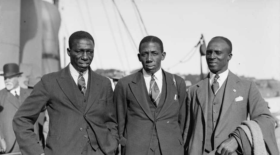 West Indian cricketers George Francis, Learie Constantine, and Herman Griffith on the team's tour of Australia during the 1930–31 season